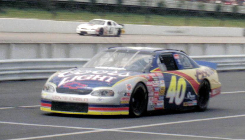 NASCAR driver Greg Sacks at Pocono in 1997.